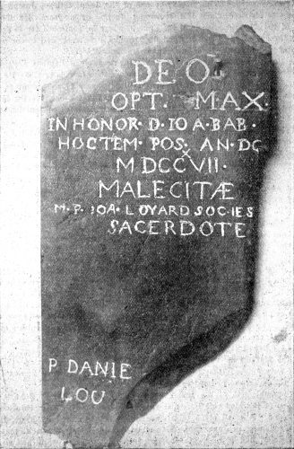 Maliseet Tablet (church cornerstone), Meductic, New Brunswick, Canada. Dating to 1717, it is the oldest religious artifact in New Brunswick. Discovered in 1890.